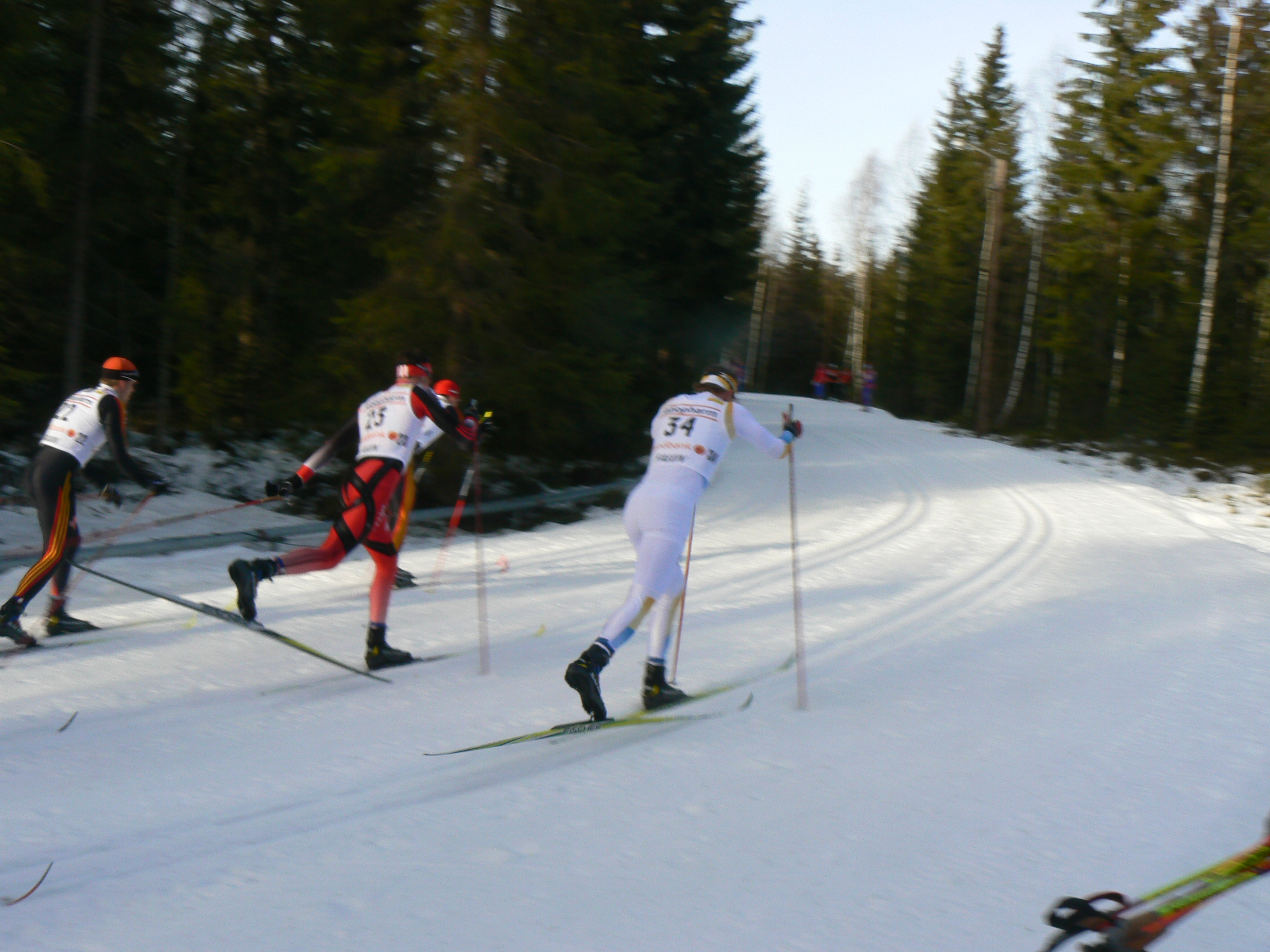 Cross country skiers Jens Filbrich, Germany (22), Vasili Rotchev, Russia (25) and Mathias Fredriksson, Sweden (34) in the 15+15 km FIS World Cup race in Falun on February 23 2008.